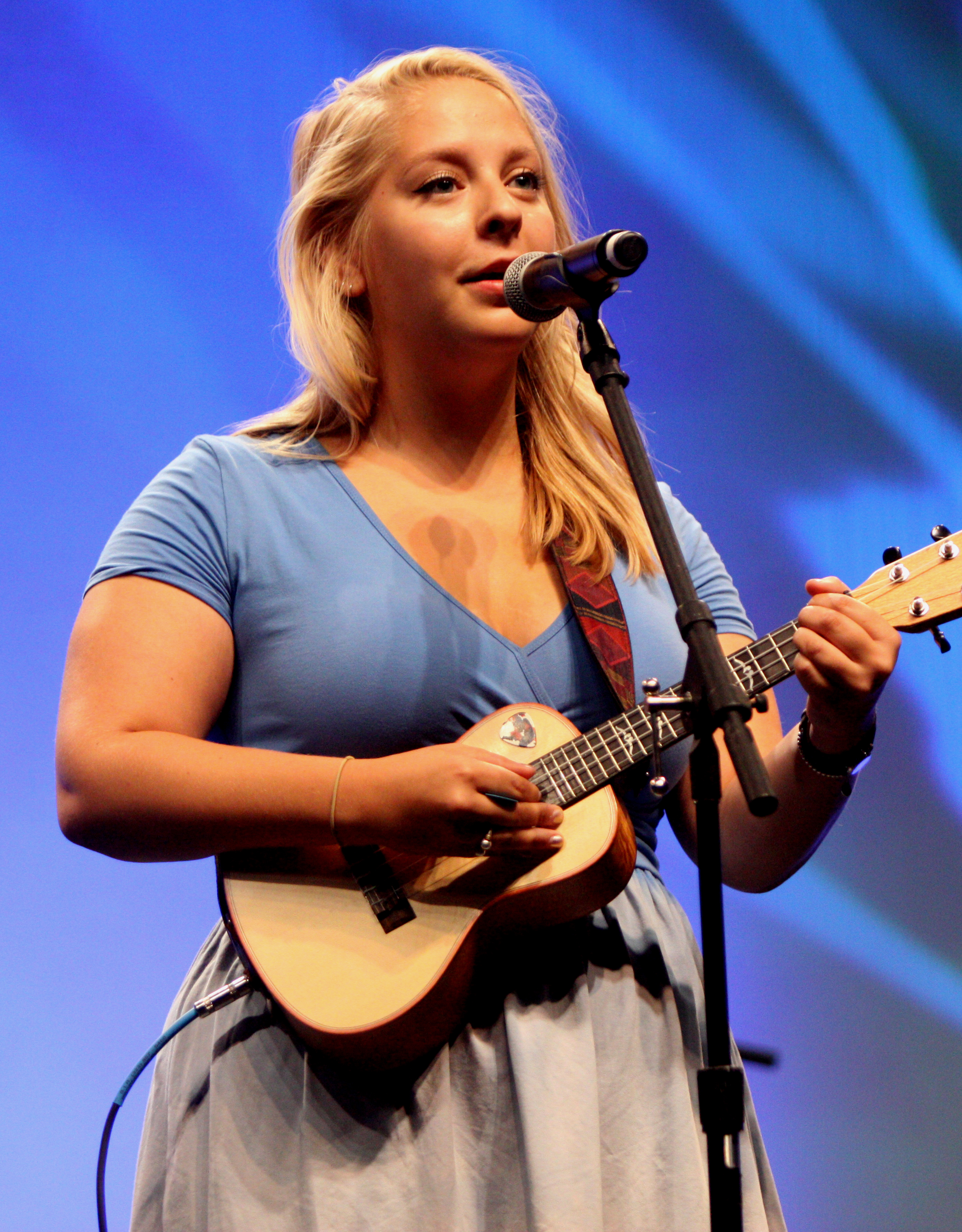 Julia Nunes at the 2012 VidCon in Anaheim, California.